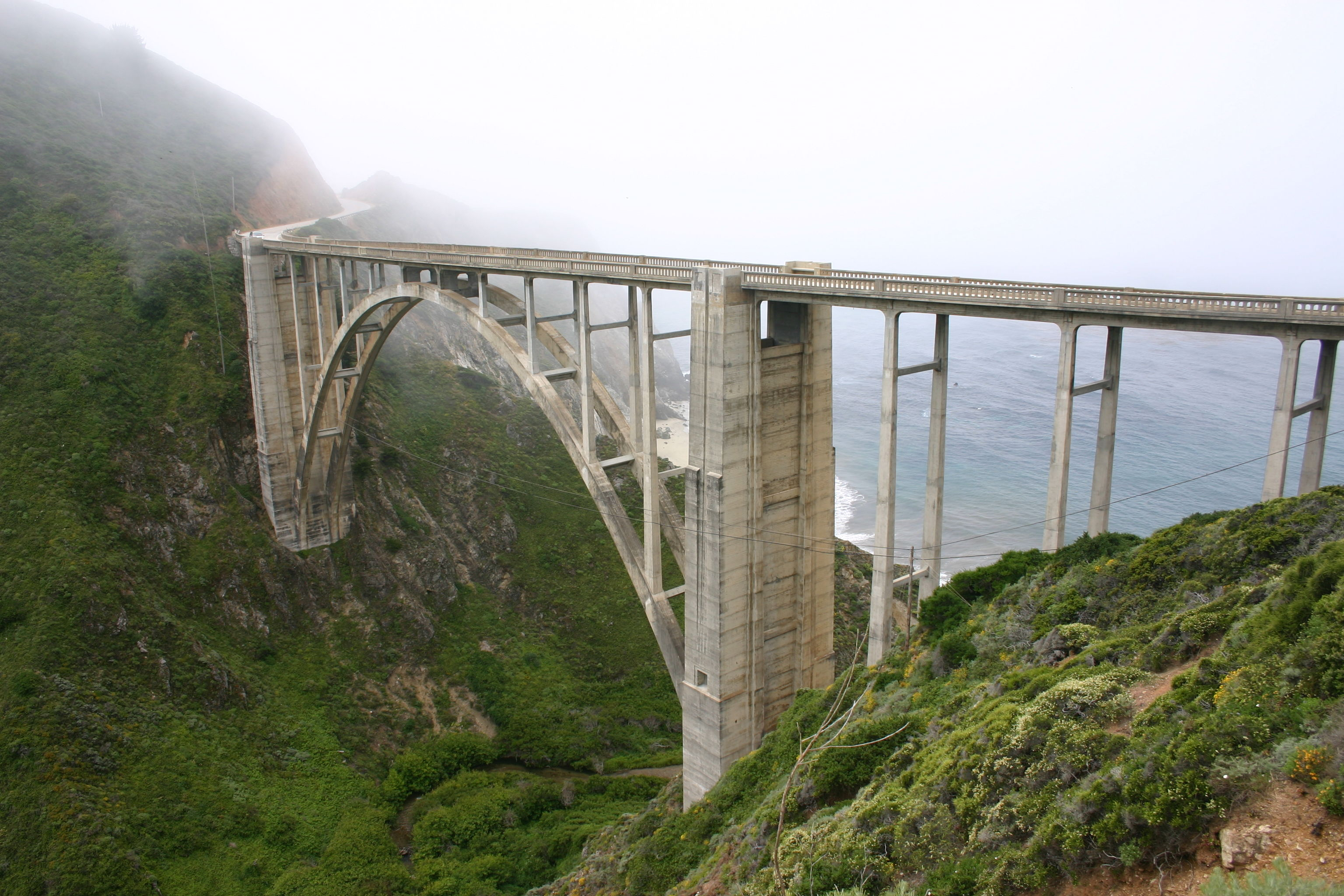 Bixby Creek Arch Bridge, Big Sur